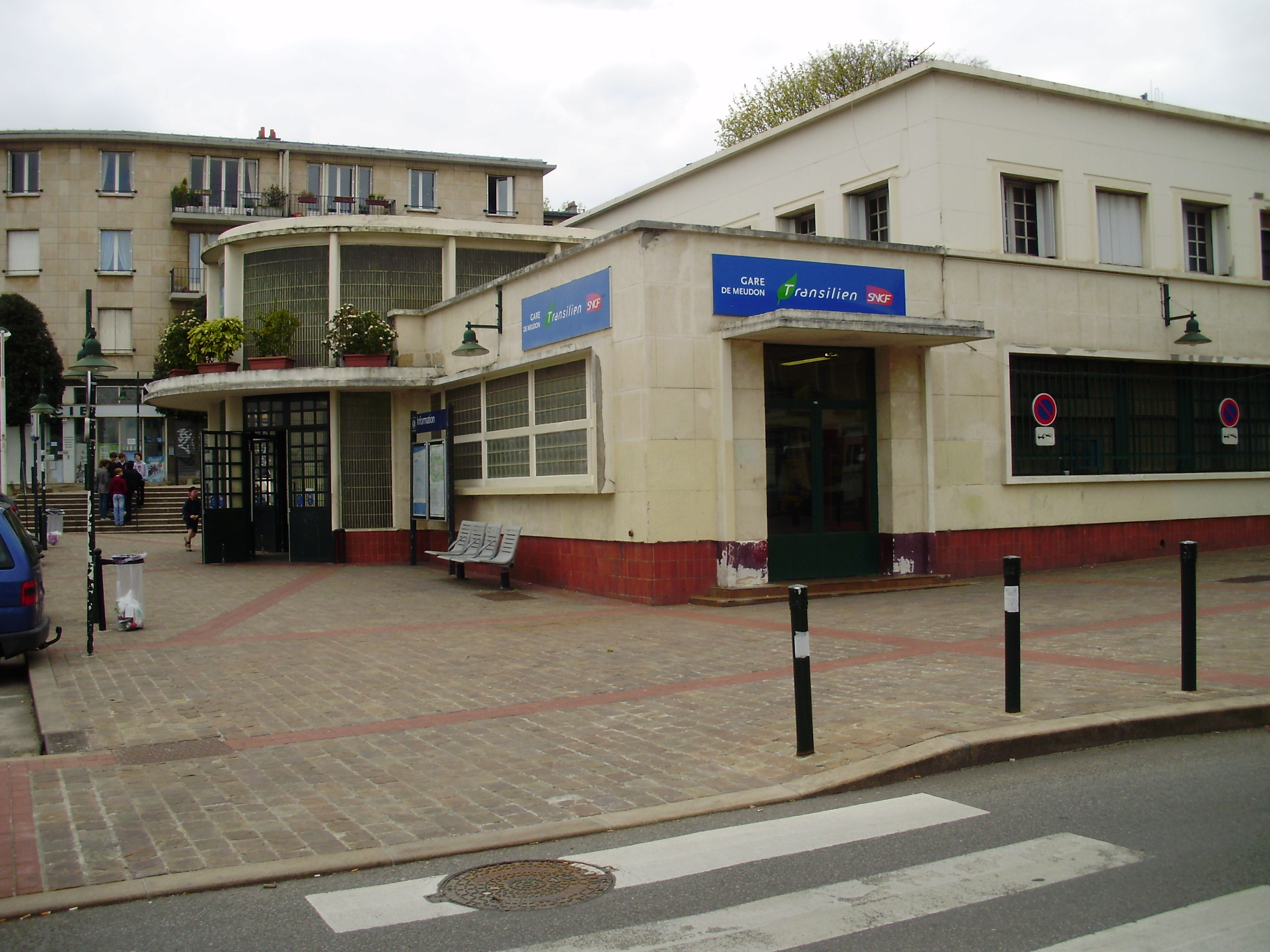 Meudon station - entrance, Hauts-de-Seine, France